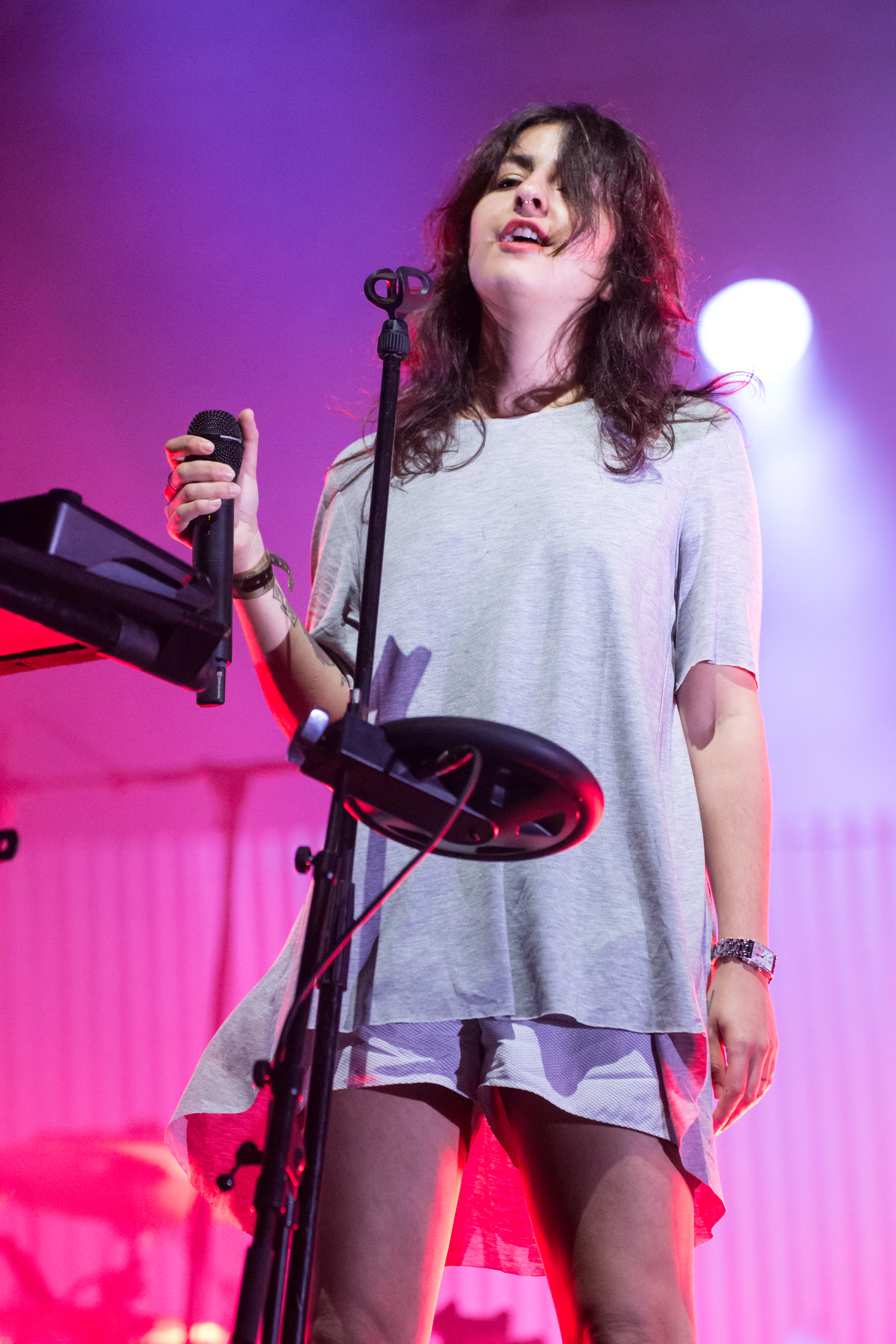 Lilly Wood & The Prick at "le weekend des curiosités 2015", Ramonville, France